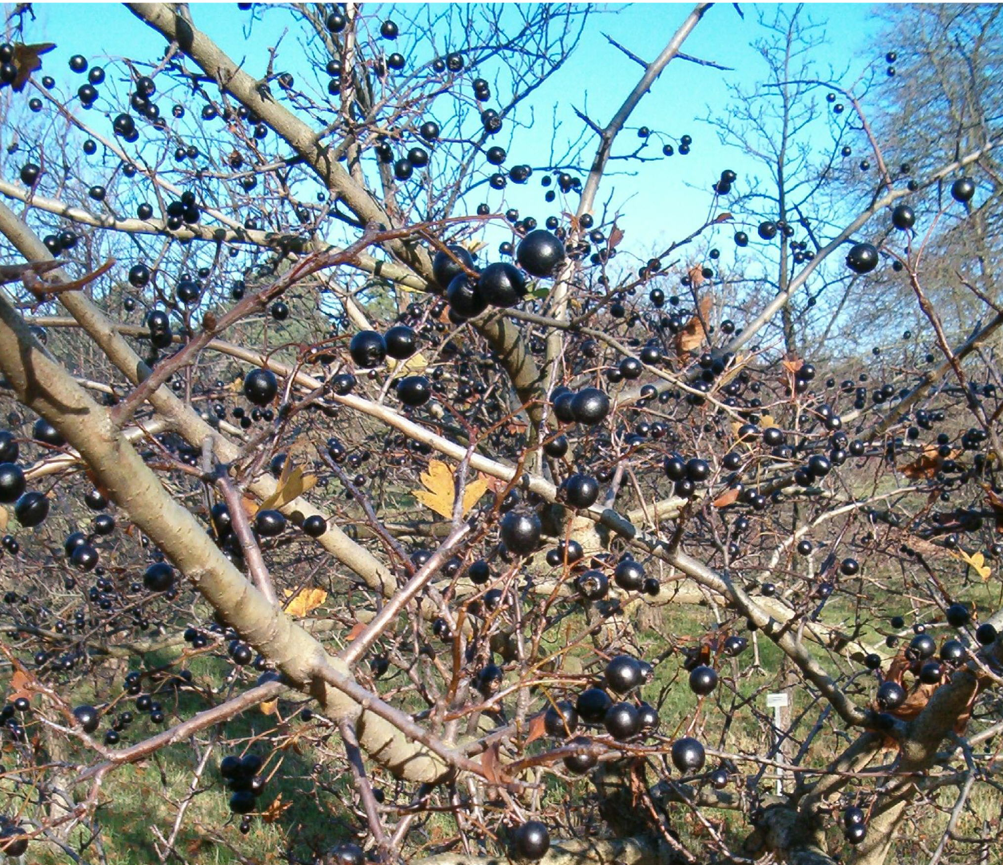 Species Crataegus pentagyna Genus Crataegus Subfamilia Maloideae Family Rosaceae Fruits at Fall Location Botanical Garden Berlin